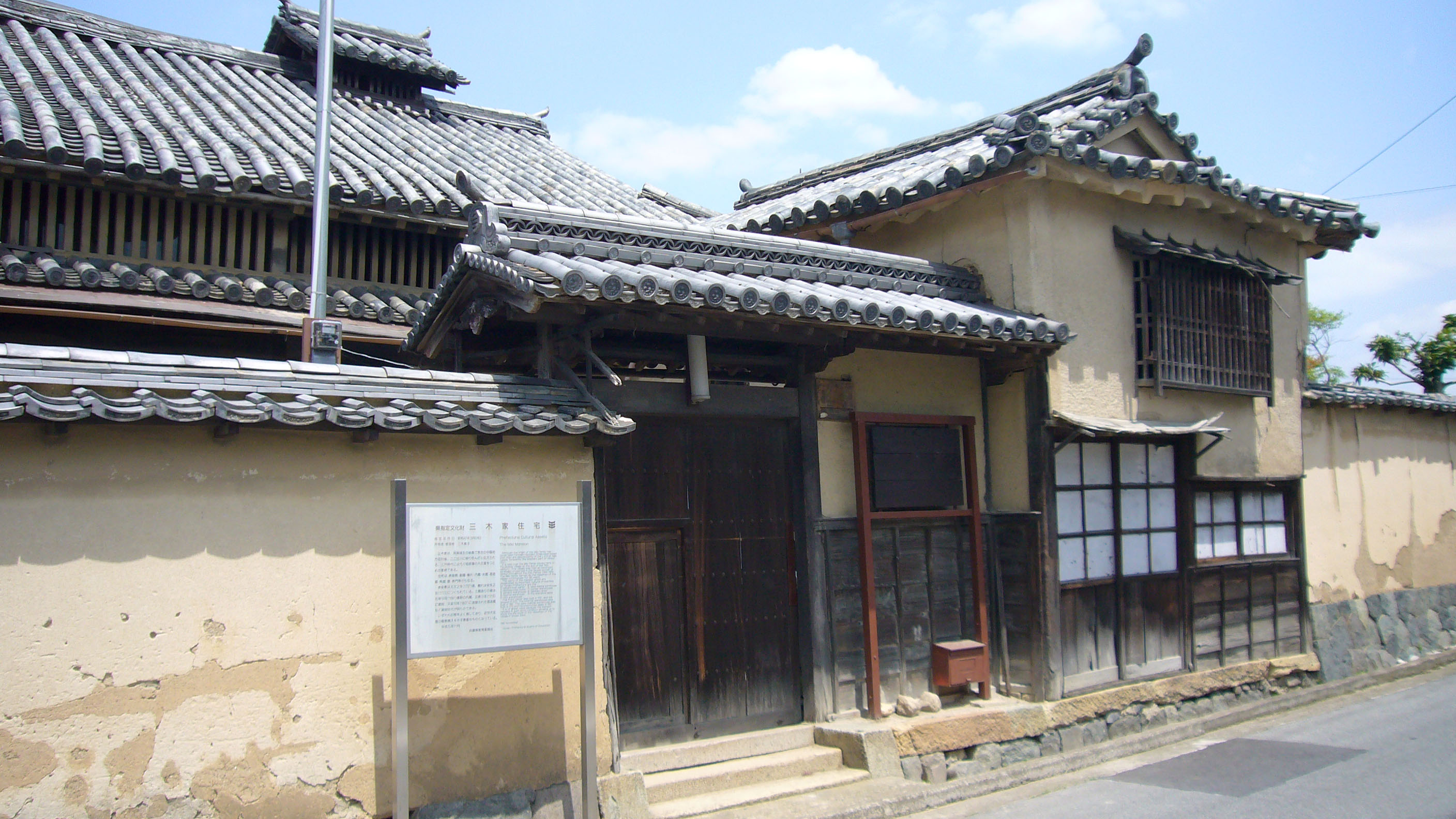 Miki House in Fukusaki, Hyogo prefecture, Japan